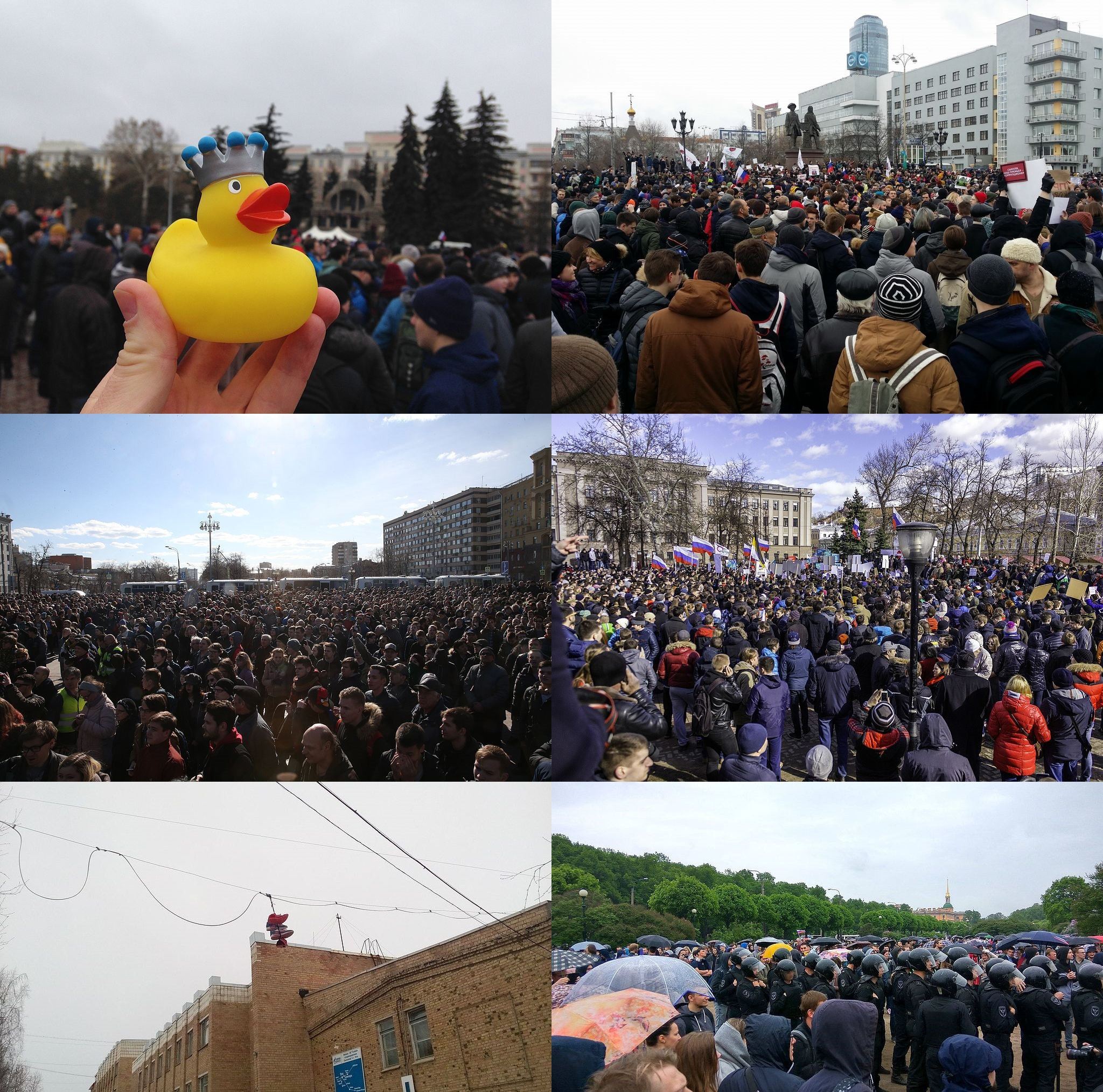 2017 anti-corruption protests in Russia: Top left: Protests in Chelyabinsk, the symbol of which was a duck, meaning leaked ducky house on Dmitry Medvedev's dacha; Top right: Protests in Yekaterinburg; Middle left: The largest rally that took place in Moscow; Middle right: Protests in Nizhny Novgorod; Bottom left: Sneakers, also the symbol of Anti-corruption protests, represents the sneakers of Prime-minister Medvedev, which he ordered on the Internet through fake e-mail; Bottom right: Protests in St. Petersburg on Russia Day (12 June).